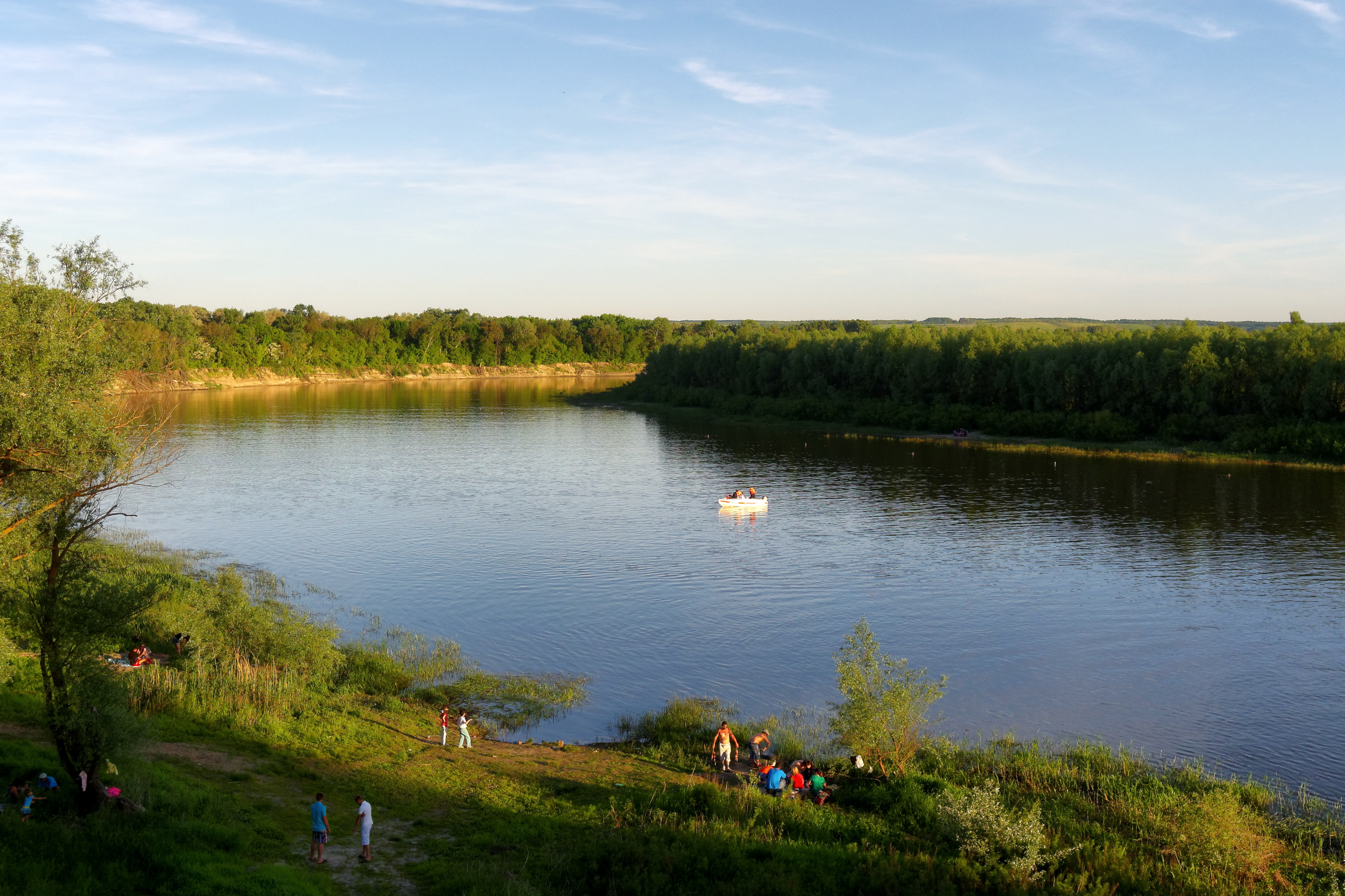 Vyoshenskaya. Don River